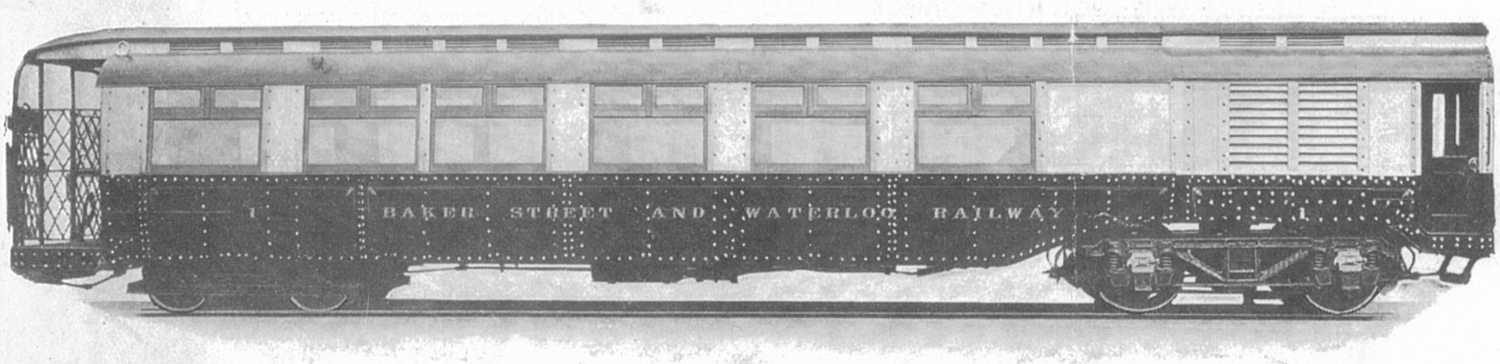 London Underground 1906 Stock motor car